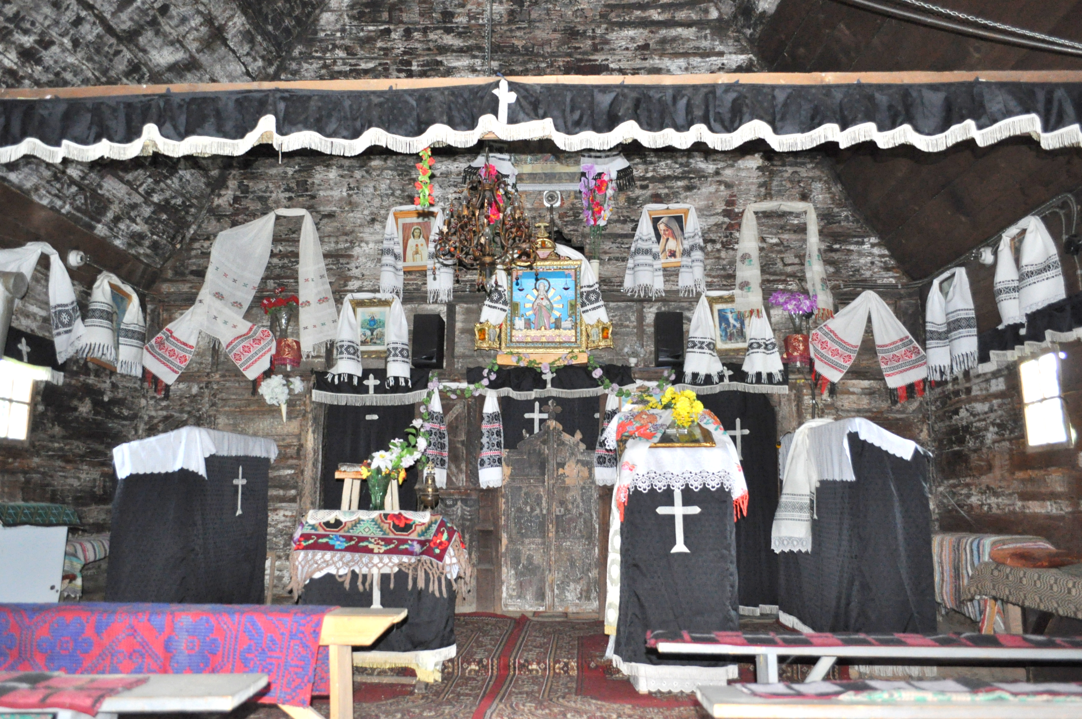 Wooden church in Chețani, Mureș county, Romania